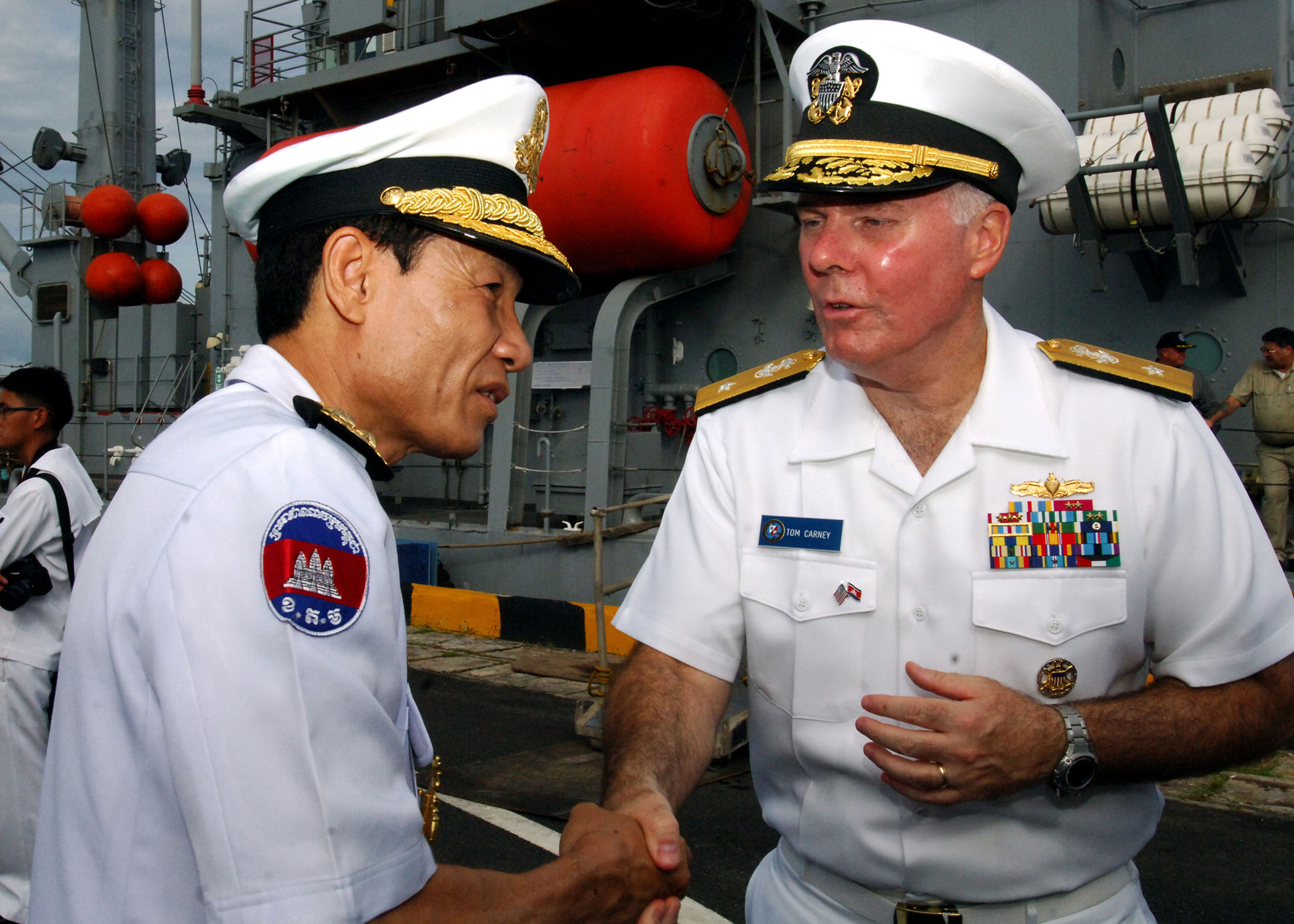 SIHANOUKVILLE, Cambodia (Oct. 20, 2011) Royal Cambodian Navy Vice Adm. Ouk Seyha thanks U.S. Navy Rear Adm. Tom Carney, commander of Task Force 73, after touring the Military Sealift Command rescue and salvage ship USNS Safeguard (T-ARS 50) during Cooperation Afloat Readiness and Training (CARAT) Cambodia 2011. CARAT is a series of bilateral exercises held annually in Southeast Asia to strengthen relationships and enhance force readiness. (U.S. Navy photo by Mass Communication Specialist 1st Class Robert Clowney/Released)